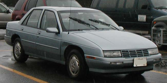 Chevrolet Corsica sedan photographed in USA.